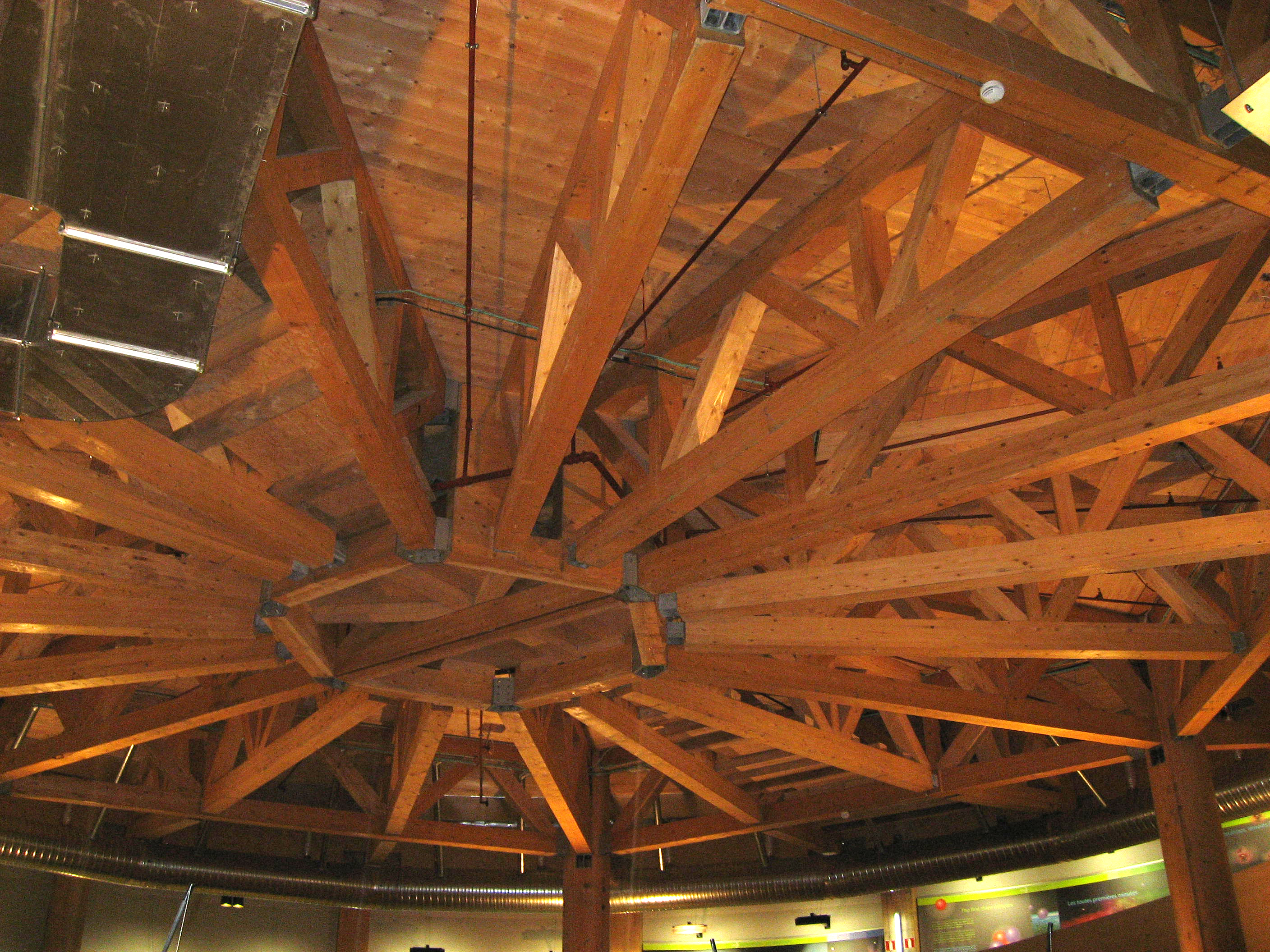 CERN Globe of Science and Innovation in Geneva - Insight view